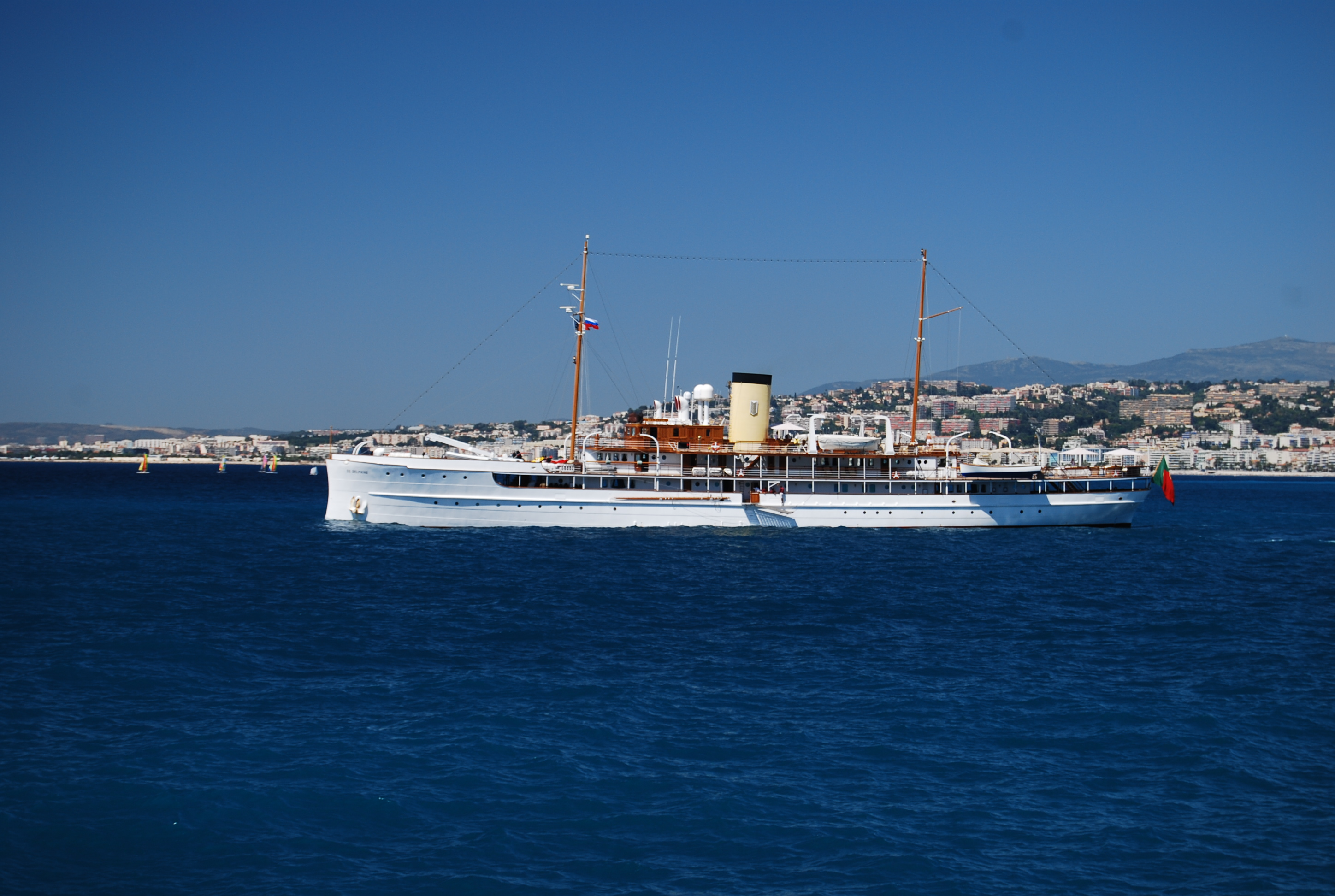 The SS Delphine, Horace Dodge's steam yacht still functional Blt. 1921.